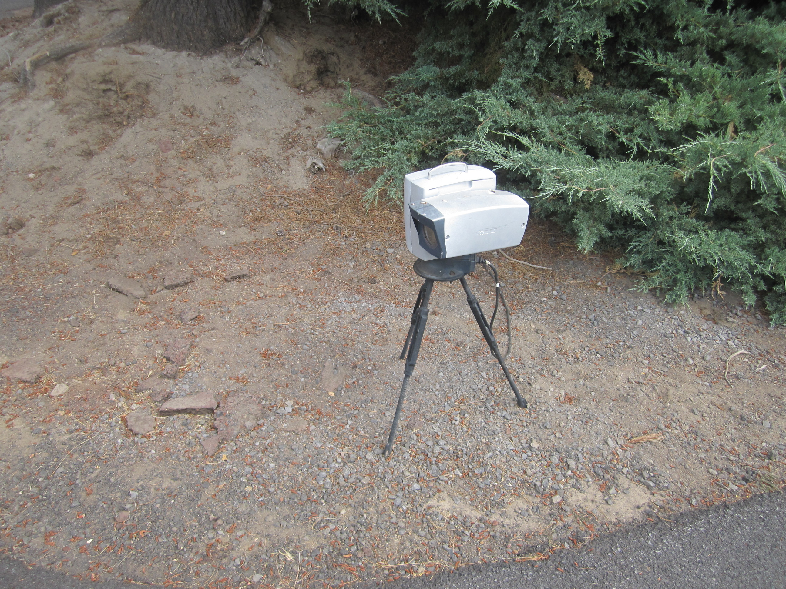 Sunriver Airport in Sunriver, Oregon